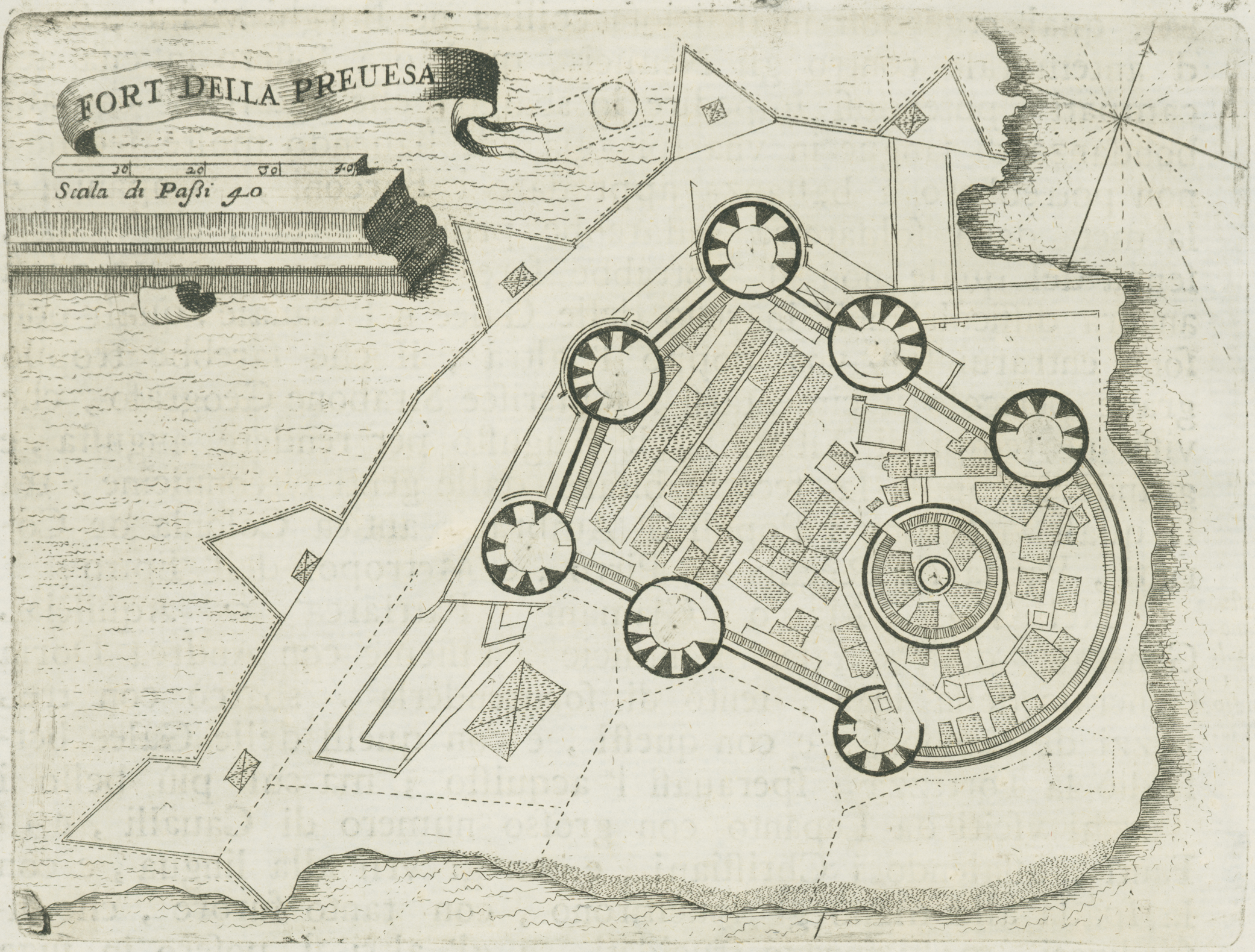 Fort della Preuesa. The castle of Bouka. Copper engraving by Coronelli, Venice, 1686.